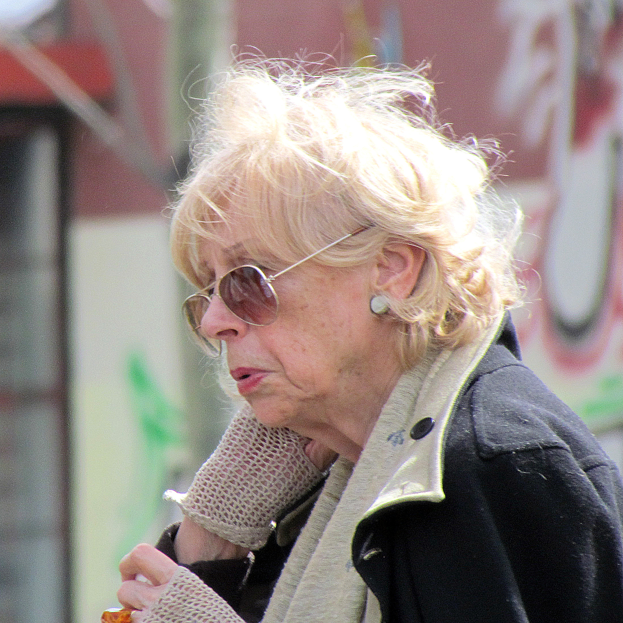 Branka Petric Serbian actress